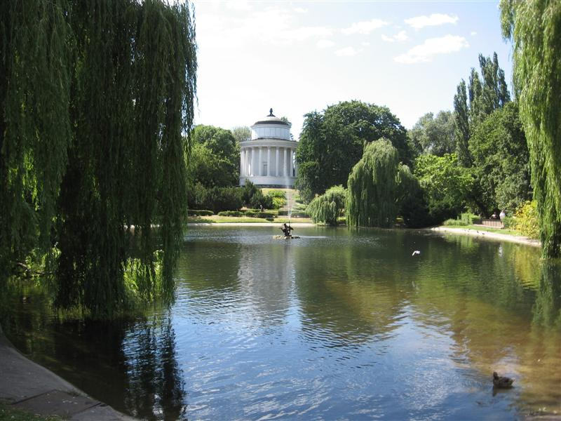 Water Tower in Saxon Garden, Warsaw